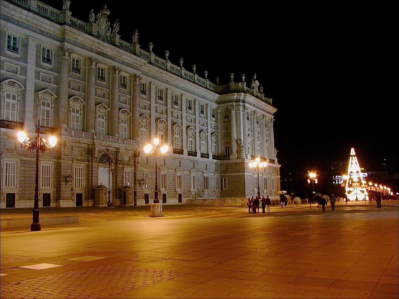 Night view of the pedestrian strecht of Calle de Bailén (street), beside Plaza de Oriente (square) in Madrid (Spain). At the left, the Royal Palace (1738–1764; 1778). In the background, a Christmas decoration.